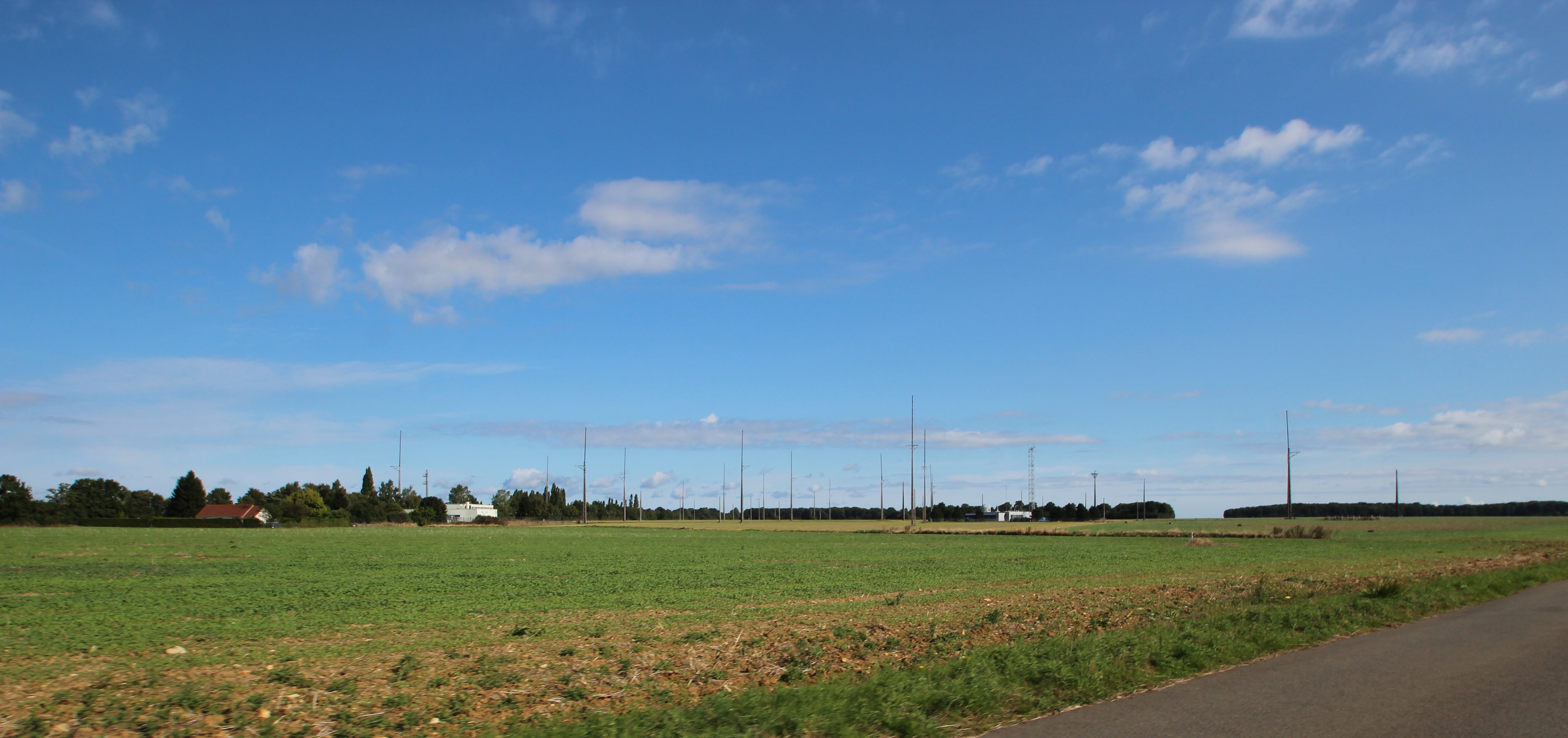 Eutelsat international telecommunications center in Prunay-en-Yvelines, France. Object location48° 32′ 53.49″ N, 1° 47′ 35.31″ E